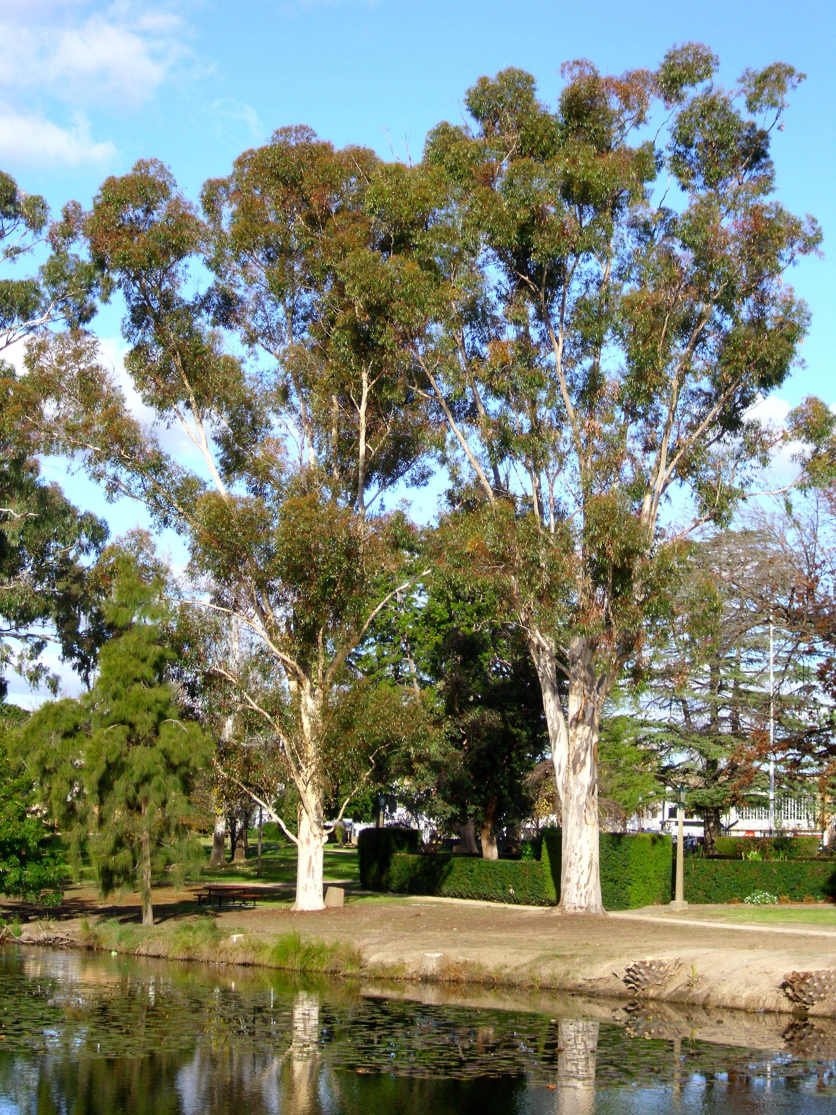 Two Sugar Gums (Eucalyptus cladocalyx) growing next to the Wollundry Lagoon in the Victory Memorial Gardens in Wagga Wagga, New South Wales.